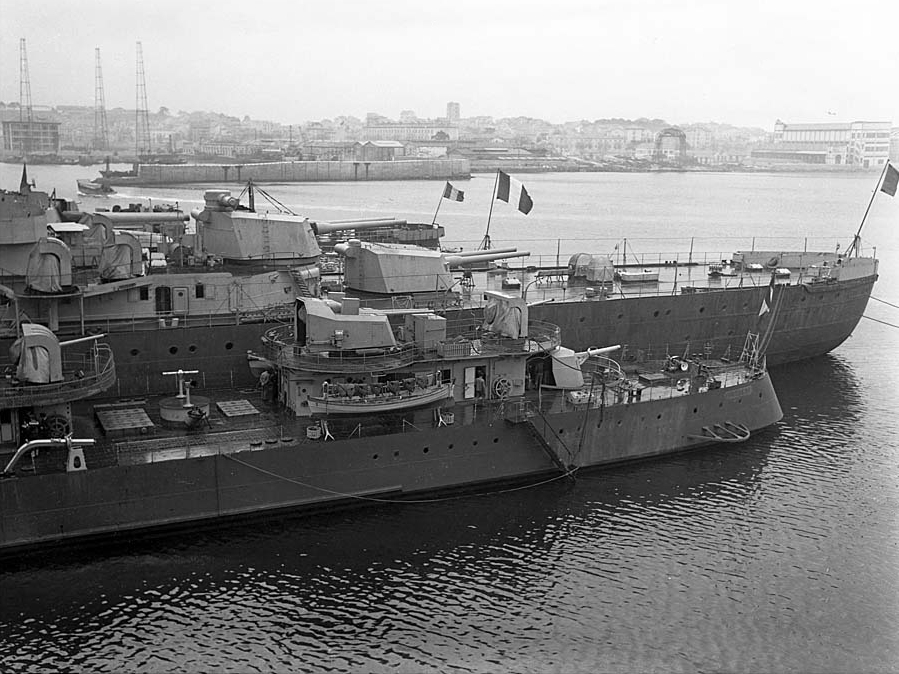 The French Marine Nationale destroyer Albatros (D 614) at Toulon, France, between September 1948 and April 1951, showing her after superstructure and stern area. A 75 mm anti-aircraft gun is visible at left, and small rangefinders are fitted atop the foundation of her after torpedo tubes. A German-type twin 105 mm anti-aircraft gun mount and a second 75 mm anti-aircraft gun are fitted atop the after deckhouse, with a 138 mm gun on the main deck aft. Note the rowing cutter suspended from davits in the center of the photo. Albatros is tied up to the port side of the heavy cruiser Suffren, whose after two 203 mm gun turrets are visible. The battleship Lorraine and light cruiser Emile Bertin (barely visible) are beyond Suffren.